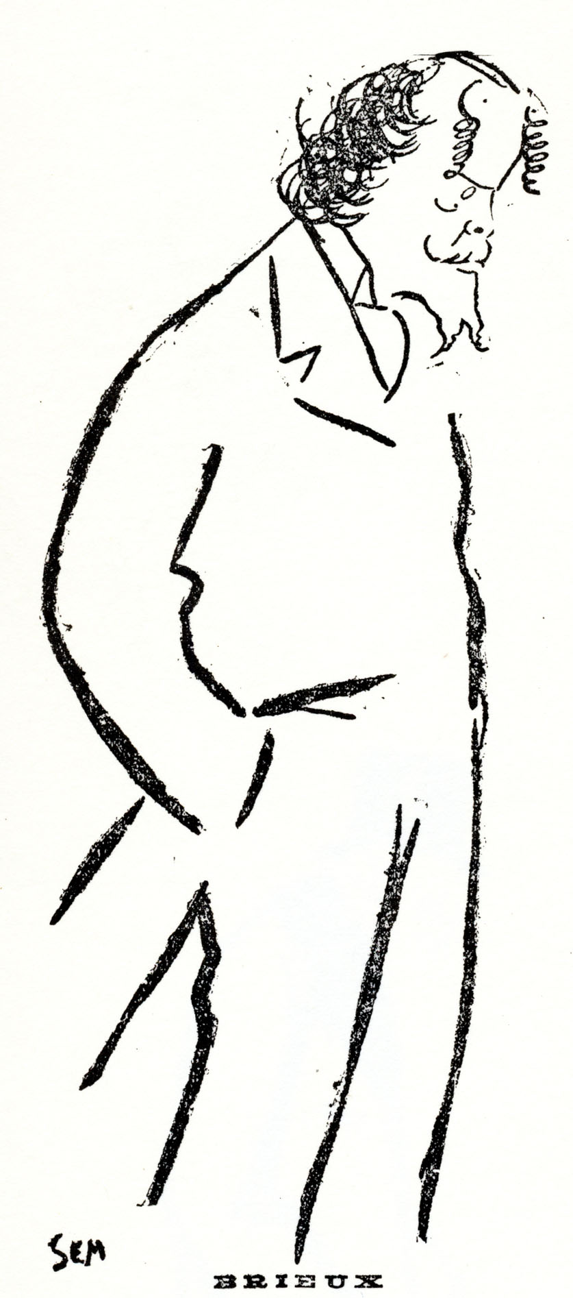 Caricature of Eugène Brieux in "Le Journal". Reproduced in Sem (1979), p. 166